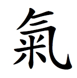 Qi character traditional chinesse